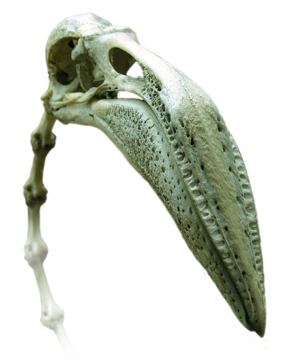 Skeleton of Phoenicopterus ruber (Natural historical museum of Lille, north of France).